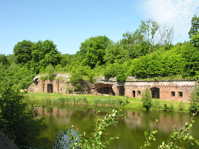 Entrance to the Fort 5 (left hole) and red brick wall with embrasures.